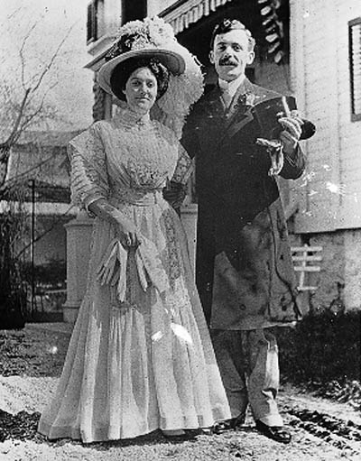 Jeanne Renault and Louis St. Laurent on their wedding day